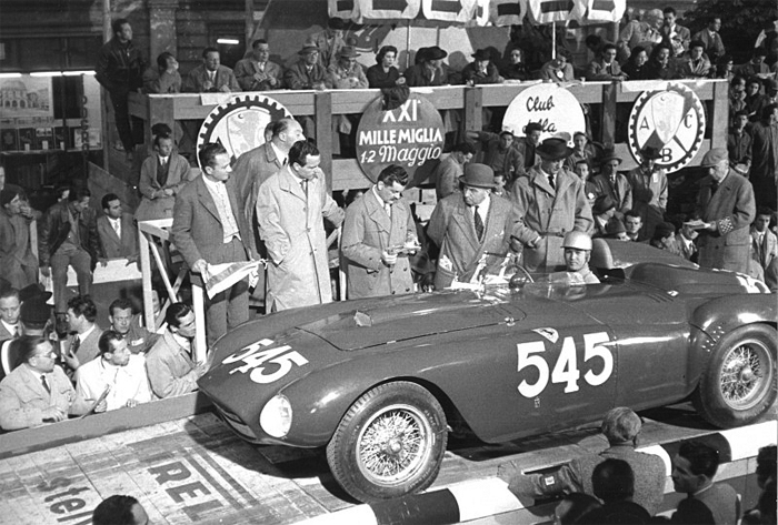 Umberto Maglioli in Brescia on 1 May 1954, driving the 1954 Ferrari 375 Plus s/n 0384AM at 1954 Mille Miglia. He did not finish, retired at Passo della Futa.[1]